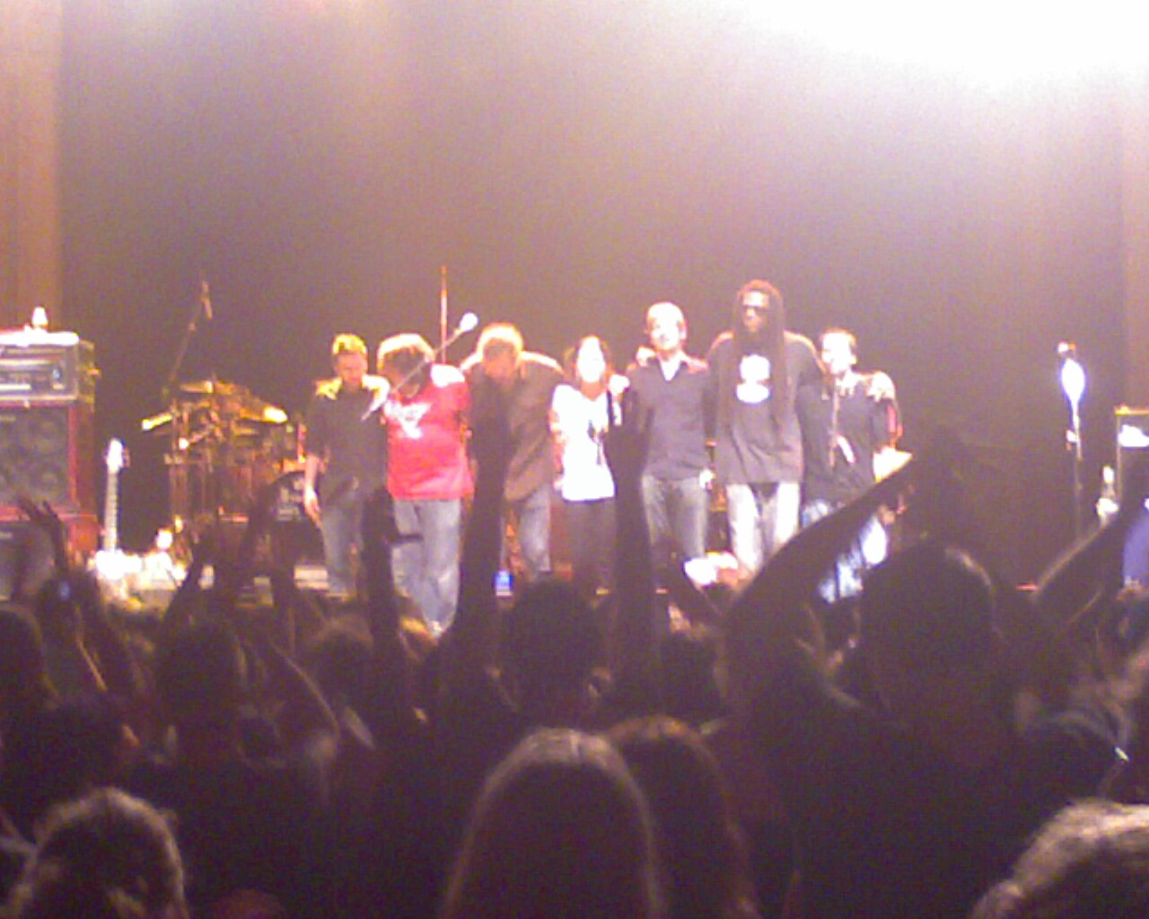 Jam band Rusted Root at the end of a show.